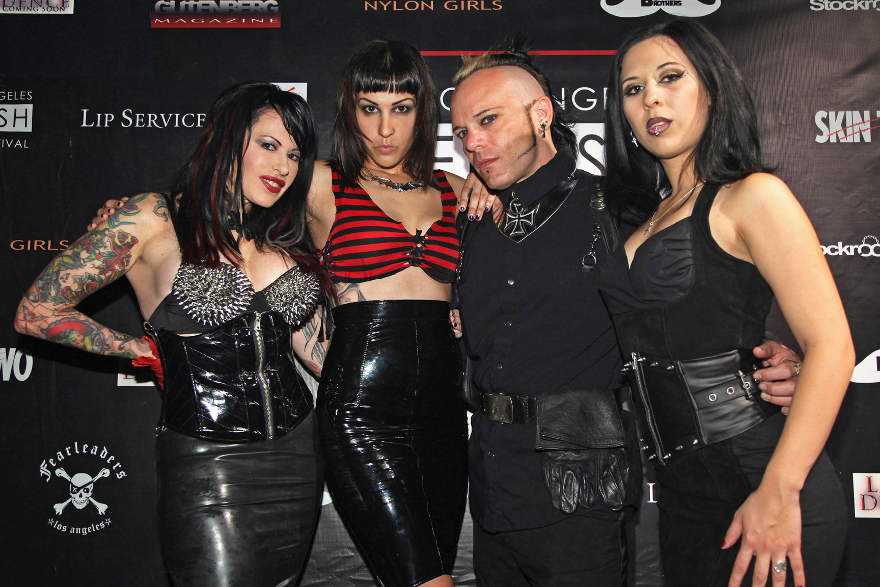 Fetish Fashion Models - Photo by Glenn Francis of